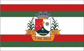 Flags of the city of Funilândia, Minas Gerais, Brazil.